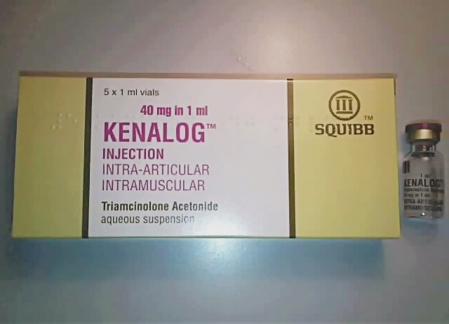 Kenalog